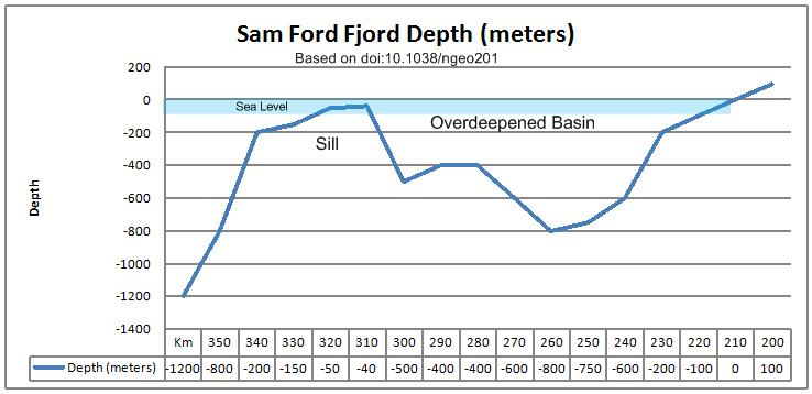 Example of profile for Sam Ford fjord for use in article on overdeepening:overdeepened basins